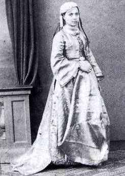 Maharani Bamba Duleep Singh born Bamba Müller (c.1848 - 1886) was the daughter of a slave and a married German banker. Brought up by Christian missionaries she married Duleep Singh Sukerchakia and became Maharani Bamba, wife of the last Maharaja of Lahore